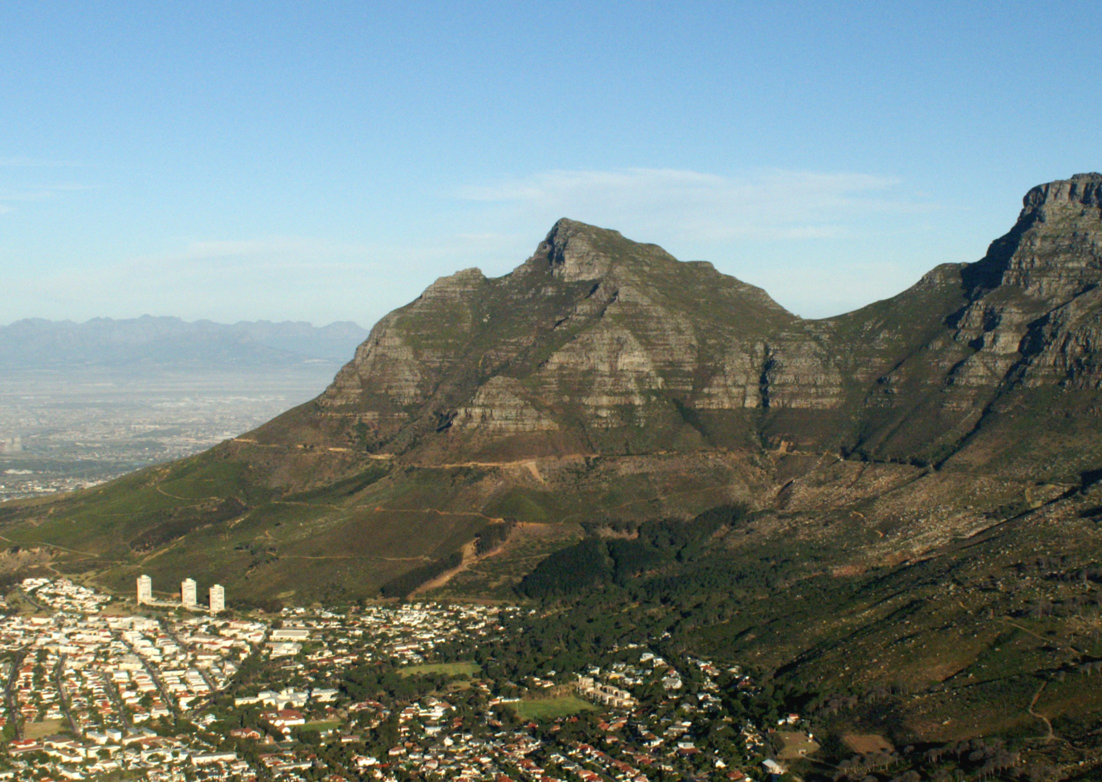 Devil's Peak as seen from the western face of Lion's Head. The uppermost residential areas of the City Bowl are visible at the bottom. To the right of Devil's Peak is Table Mountain.